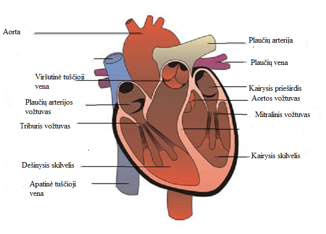 The internal structure of the heart